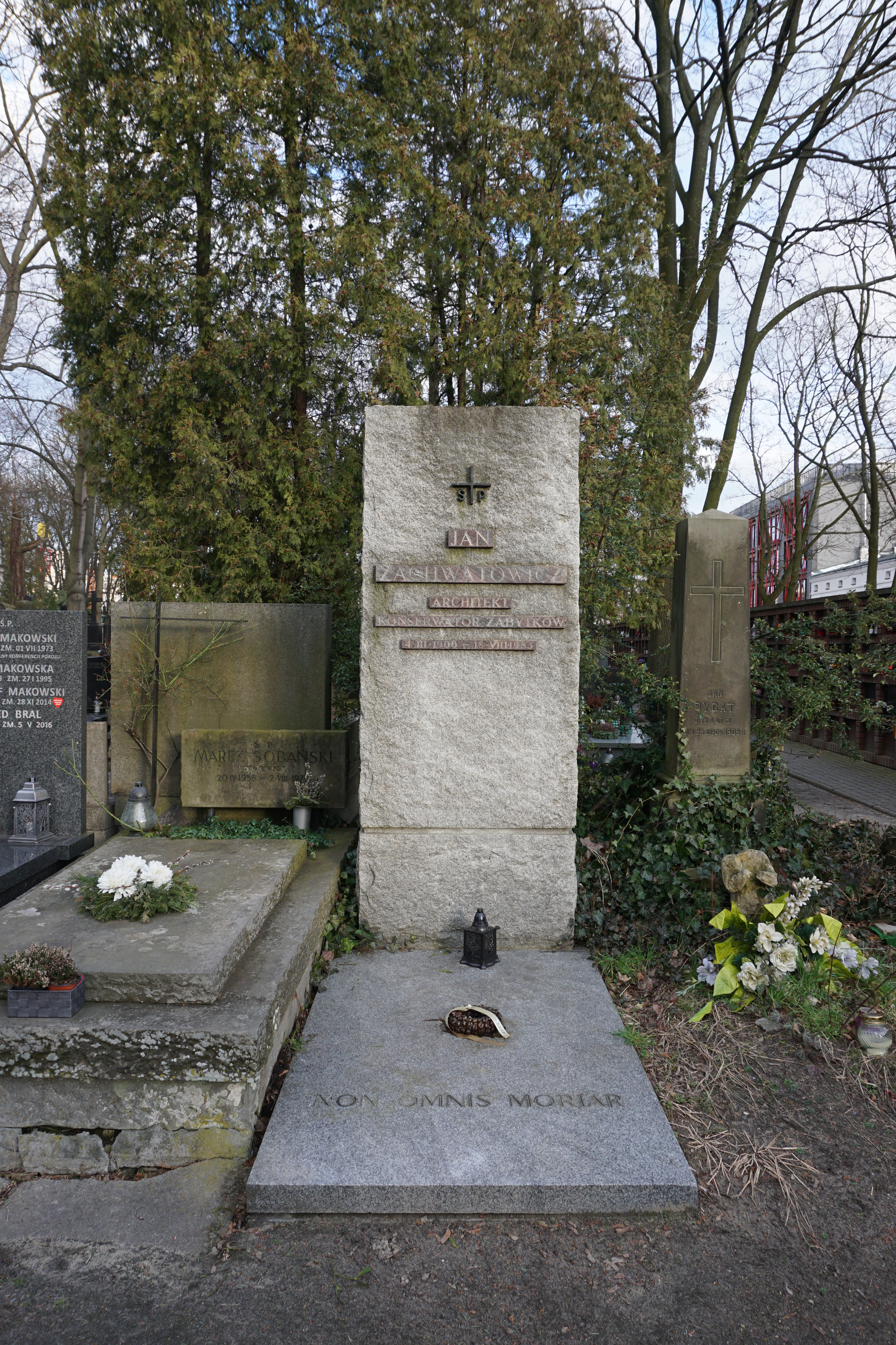 The grave of Jan Zachwatowicz at the Powązki Cemetery (section 166, row 6, grave 25)